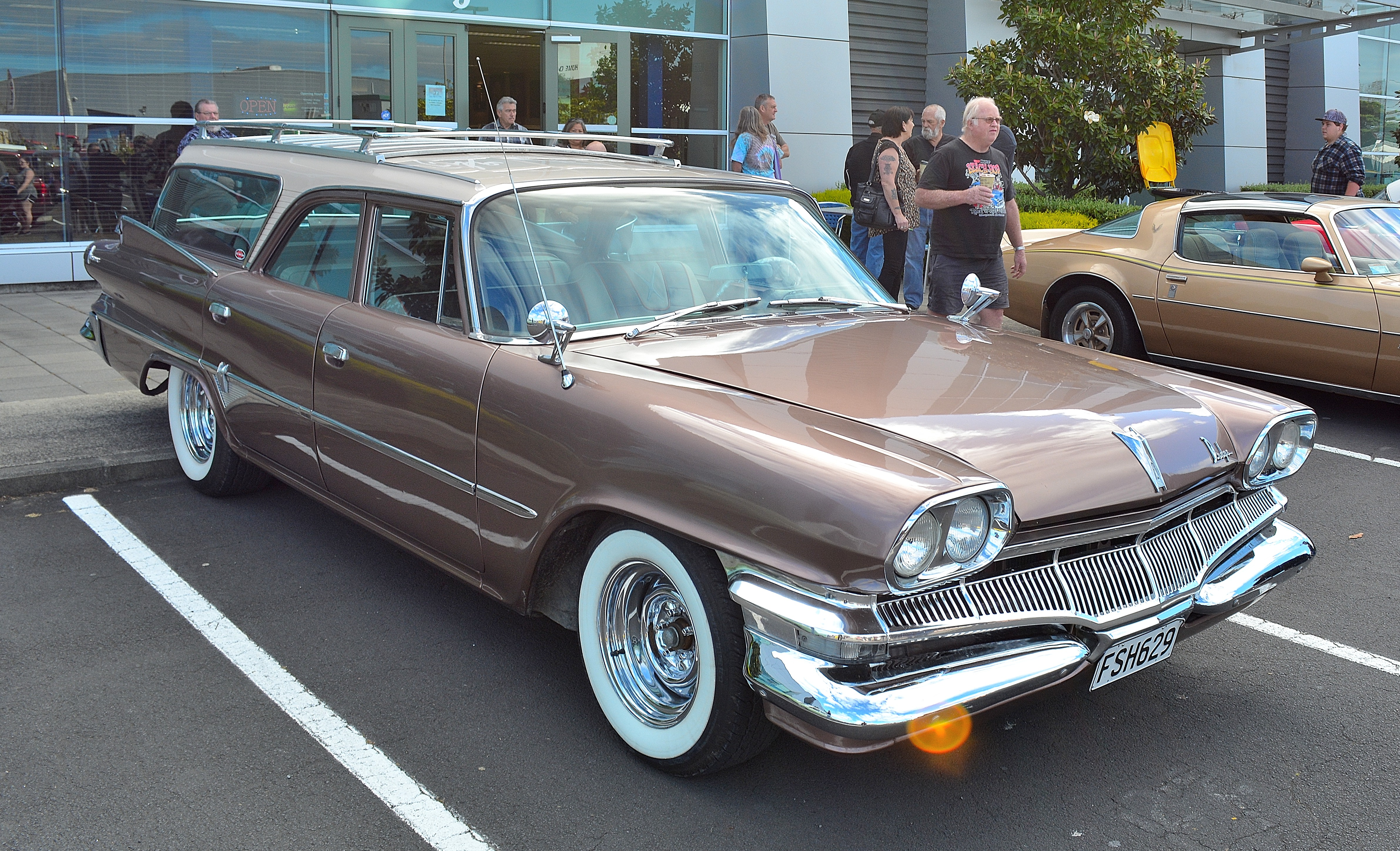 South Auckland,New Zealand